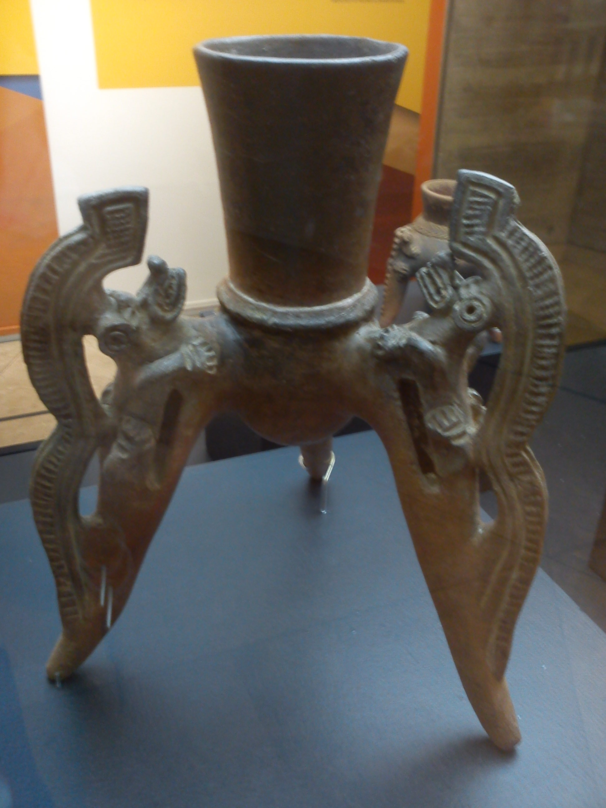 Africa tripod bowl with a crocodyle figure, La Selva Phase, 300-800 AD. Central Caribbean Costa Rica. The lizard was a death-like symbol for ancient pre-Columbian people from Caribbean Costa Rica.